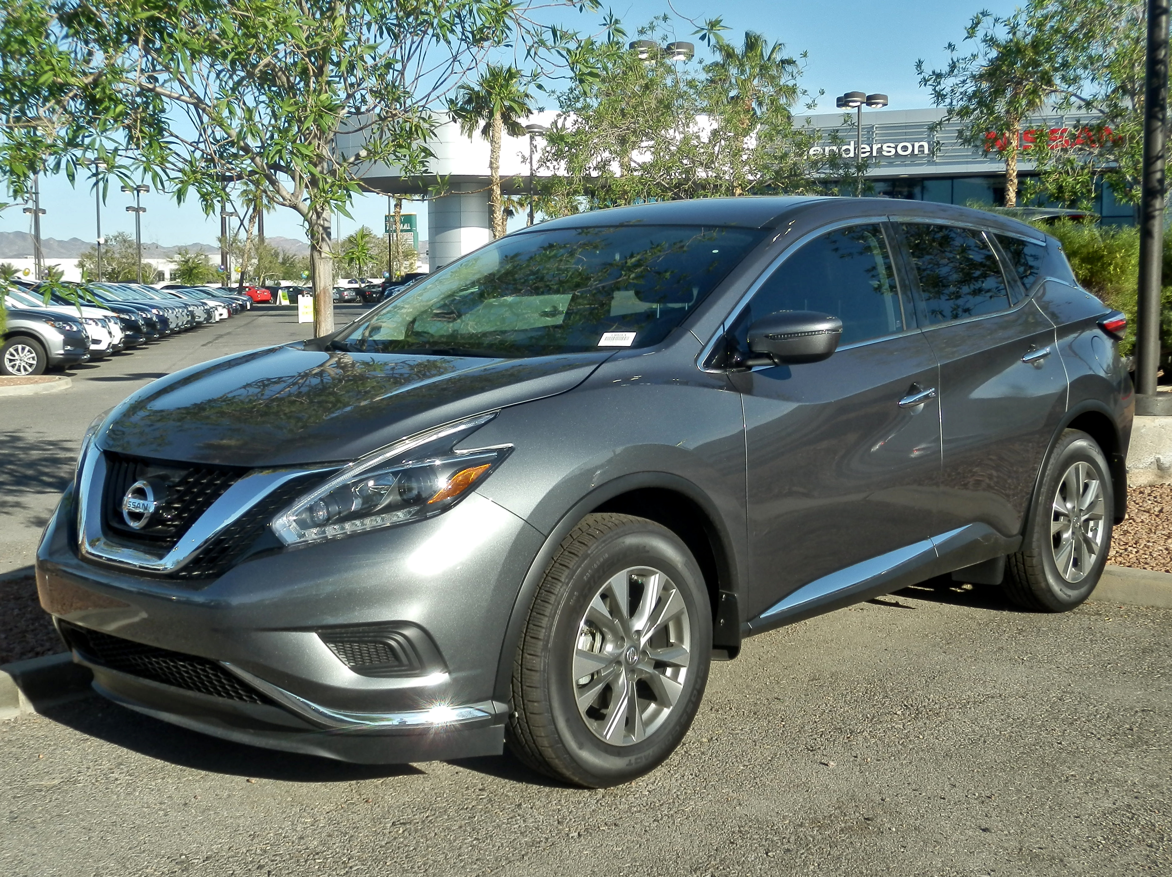 Nissan Murano in Las Vegas